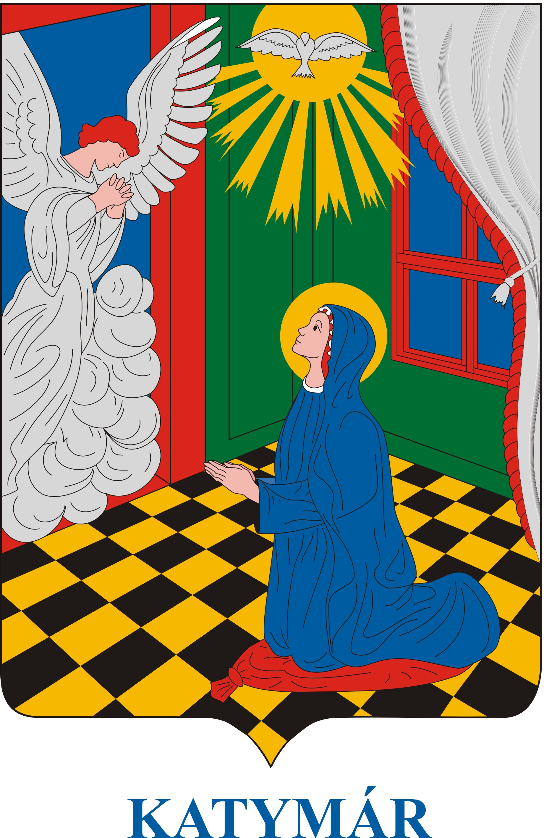 Coat of arms of Katymár, Hungary (showing the Annunciation)